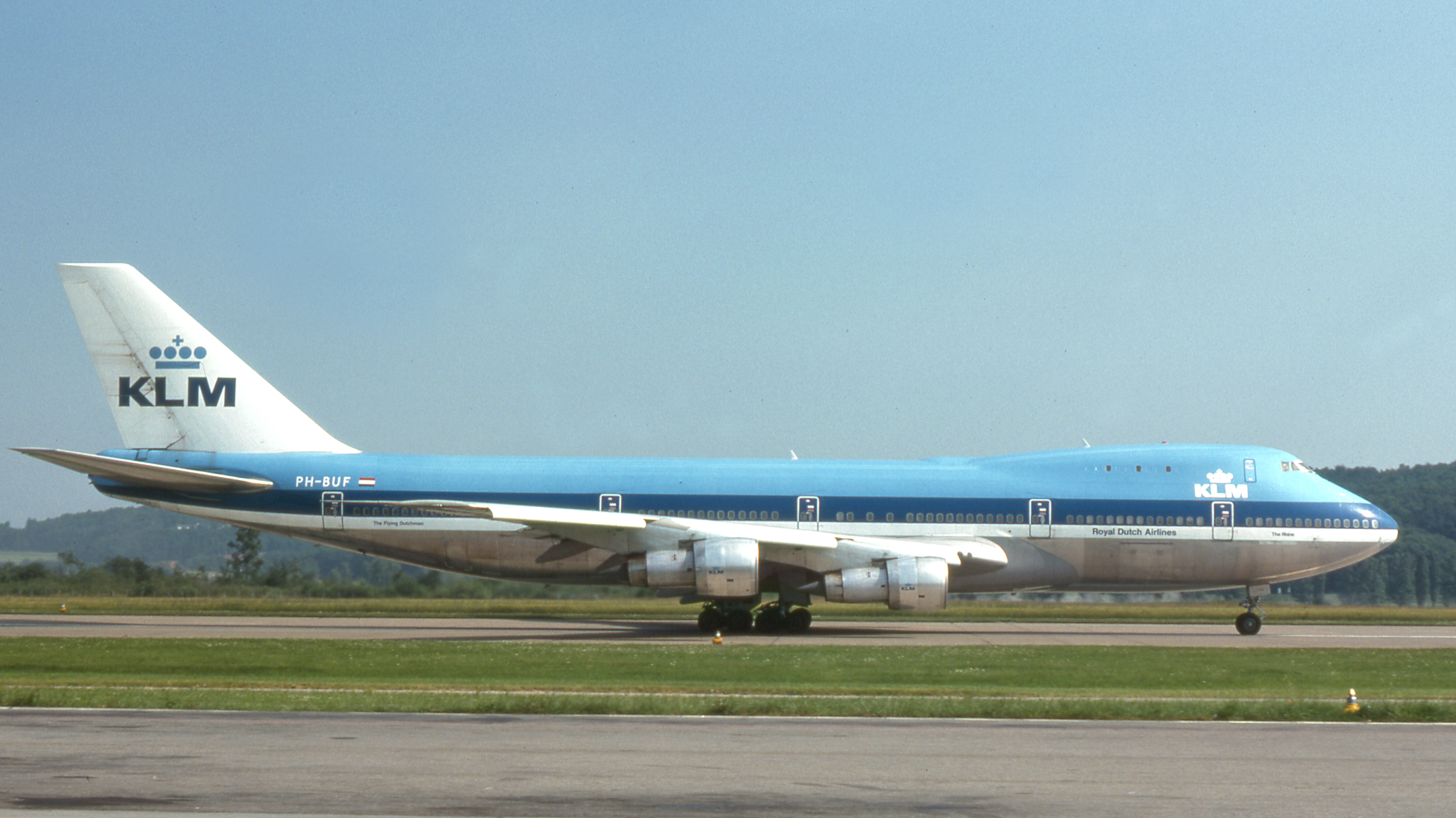 KLM Boeing 747-206B (PH-BUF) named The Rhine. This aircraft would be destroyed in March 1977 in the Tenerife disaster.